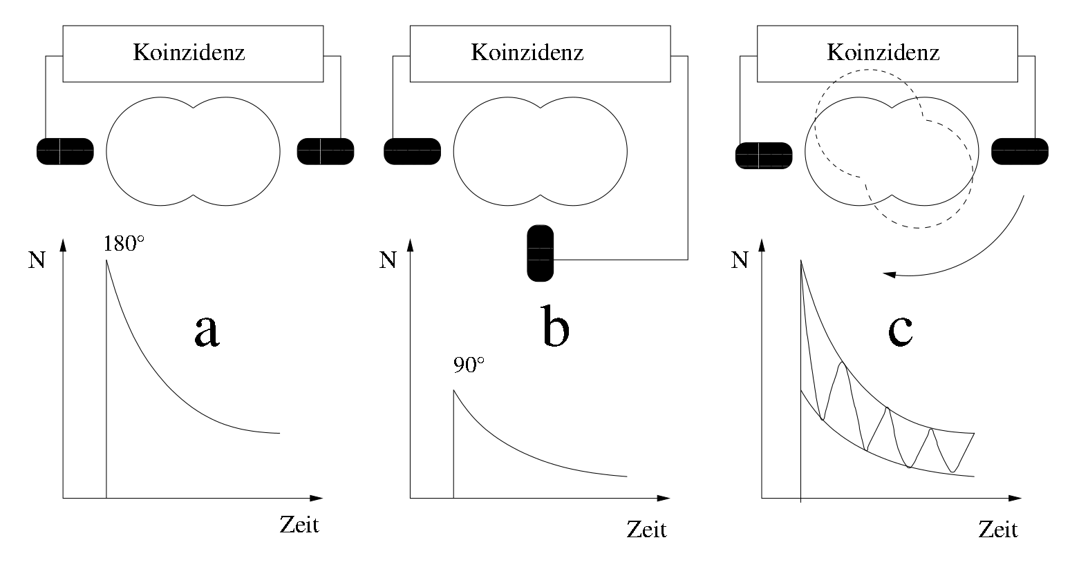 PAC-Spectroscopy: Showing relation of detection.